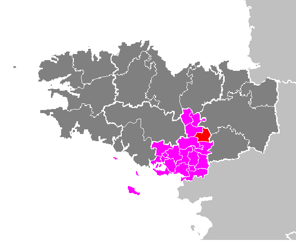 Maps of arrondissements and cantons of France: Arrondissement de Vannes - Canton de Guer.PNG